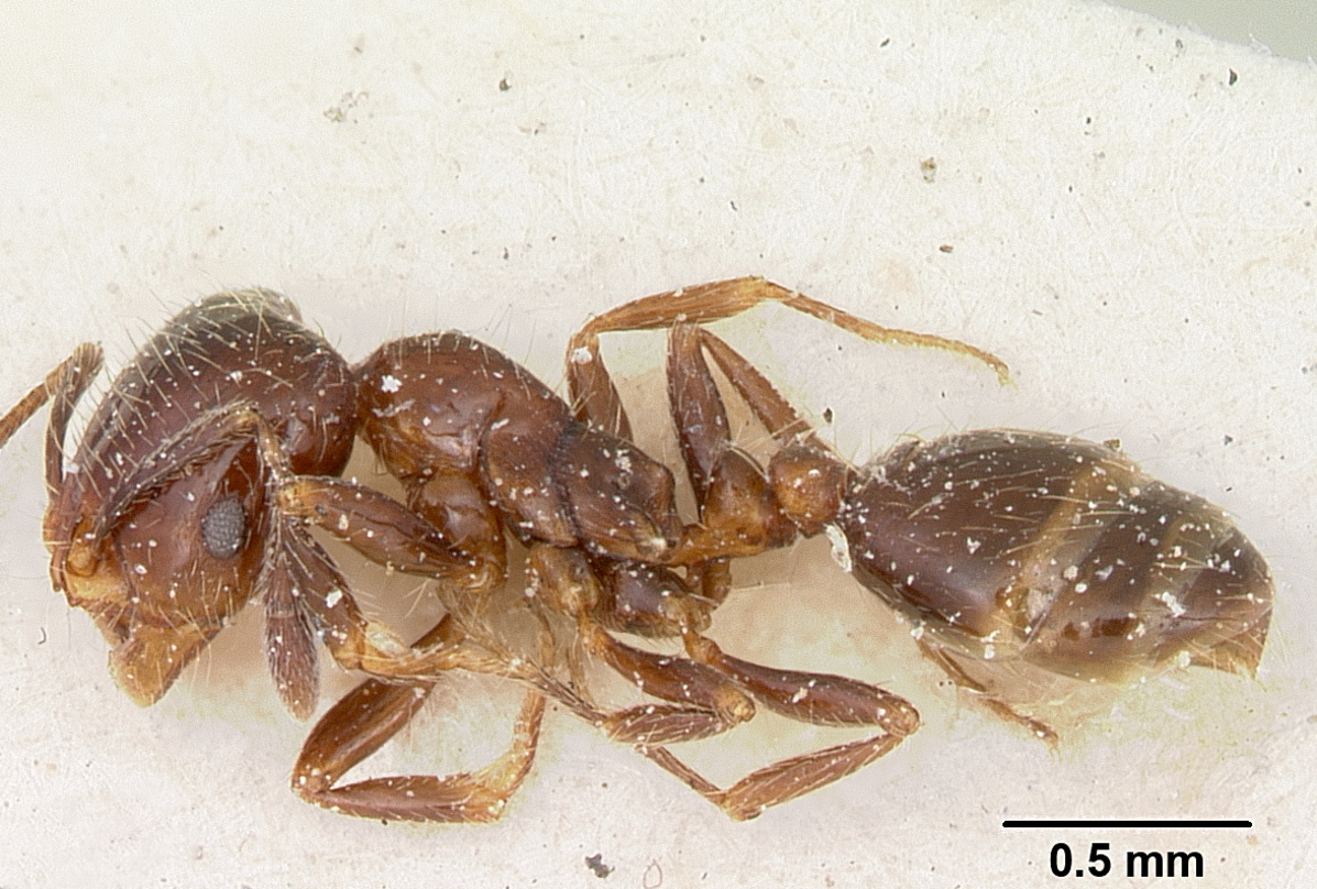 Profile view of ant Solenopsis andina specimen casent0103212.